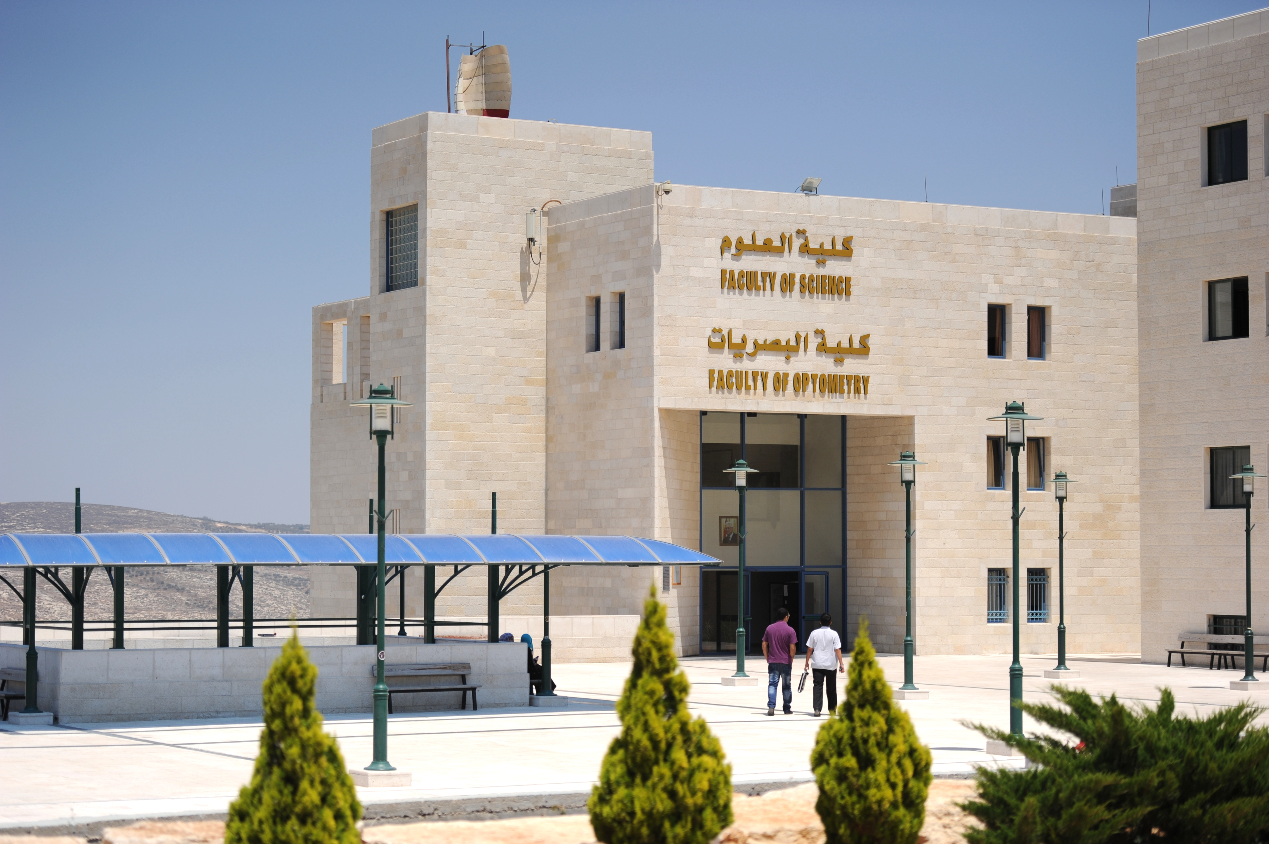 Faculty of Science and Faculty of Optometry at An-Najah University in Nablus, West Bank